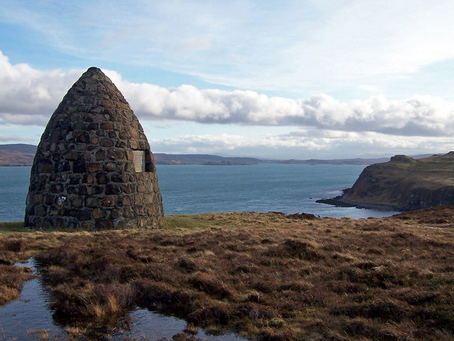 The MacCrimmon Memorial and view. The memorial stands above Loch Dunvegan. Cairn 1129575 , Detail 1129586.